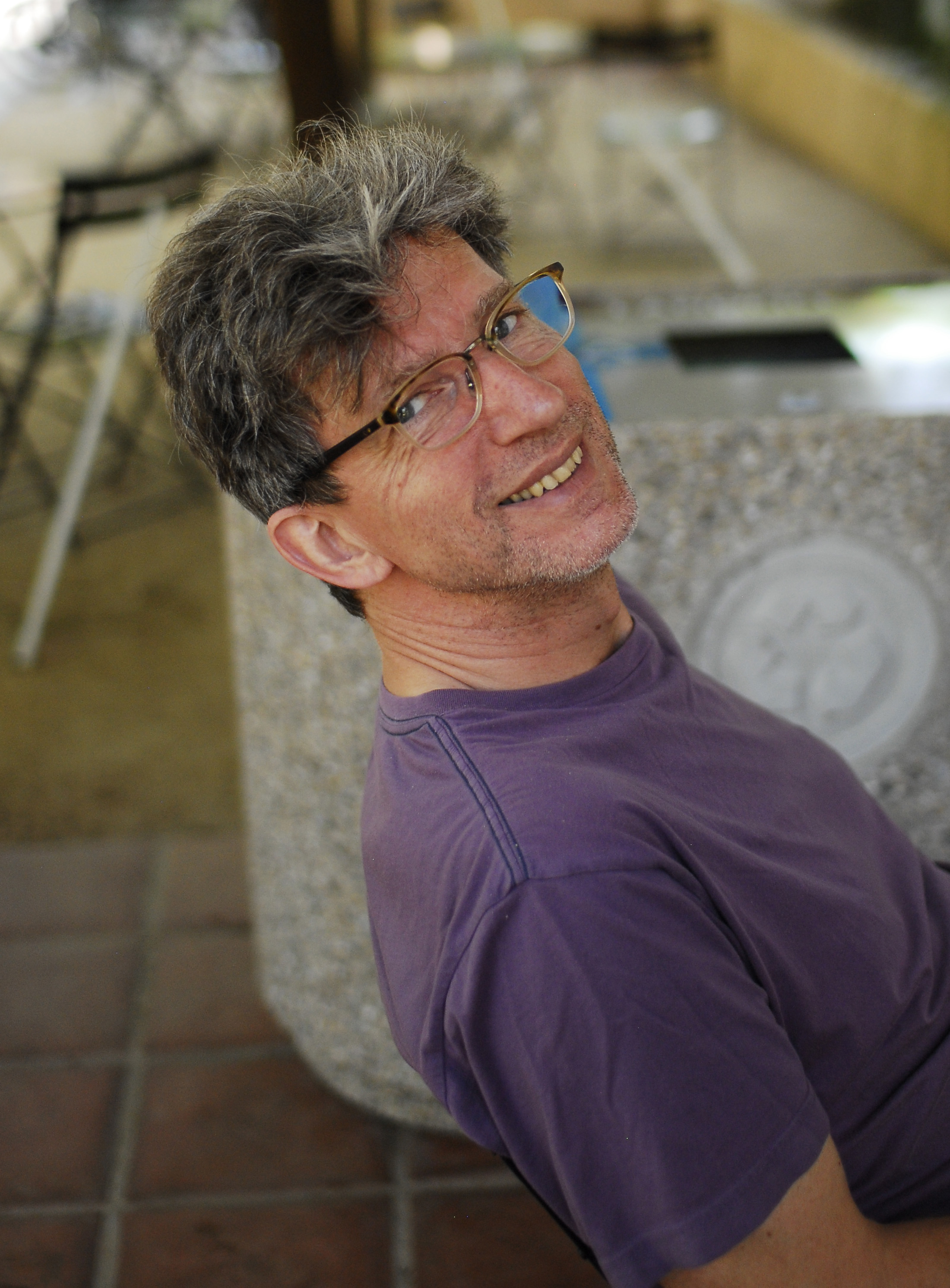 Peter Schröder outside the Annenberg Center for Information Science at Caltech in May 2013.